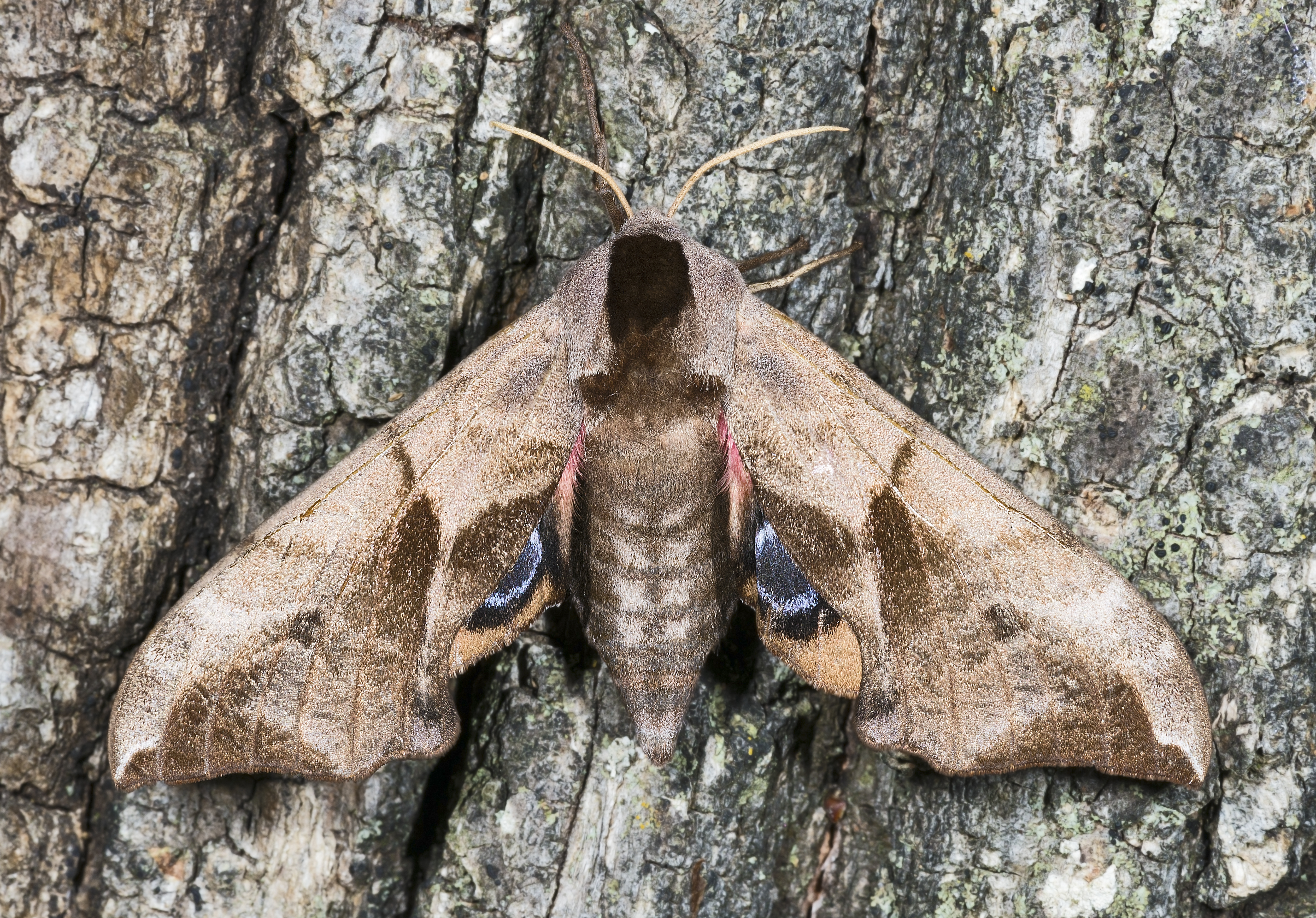 Eyed Hawk-Moth, on an oak trunk.